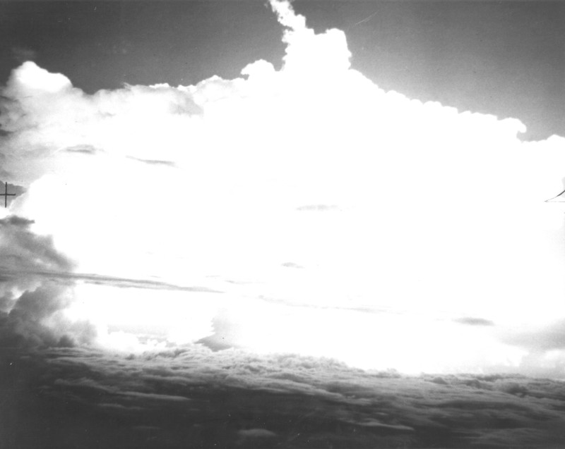 Operation Ivy, MIKE EVENT - Atomic bomb explosion taken at a height of approximately 12,000 feet, 50 miles from the detonation site; mushroom cloud rose 40,000 feet ten minutes after zero hour, 31 October 1952.